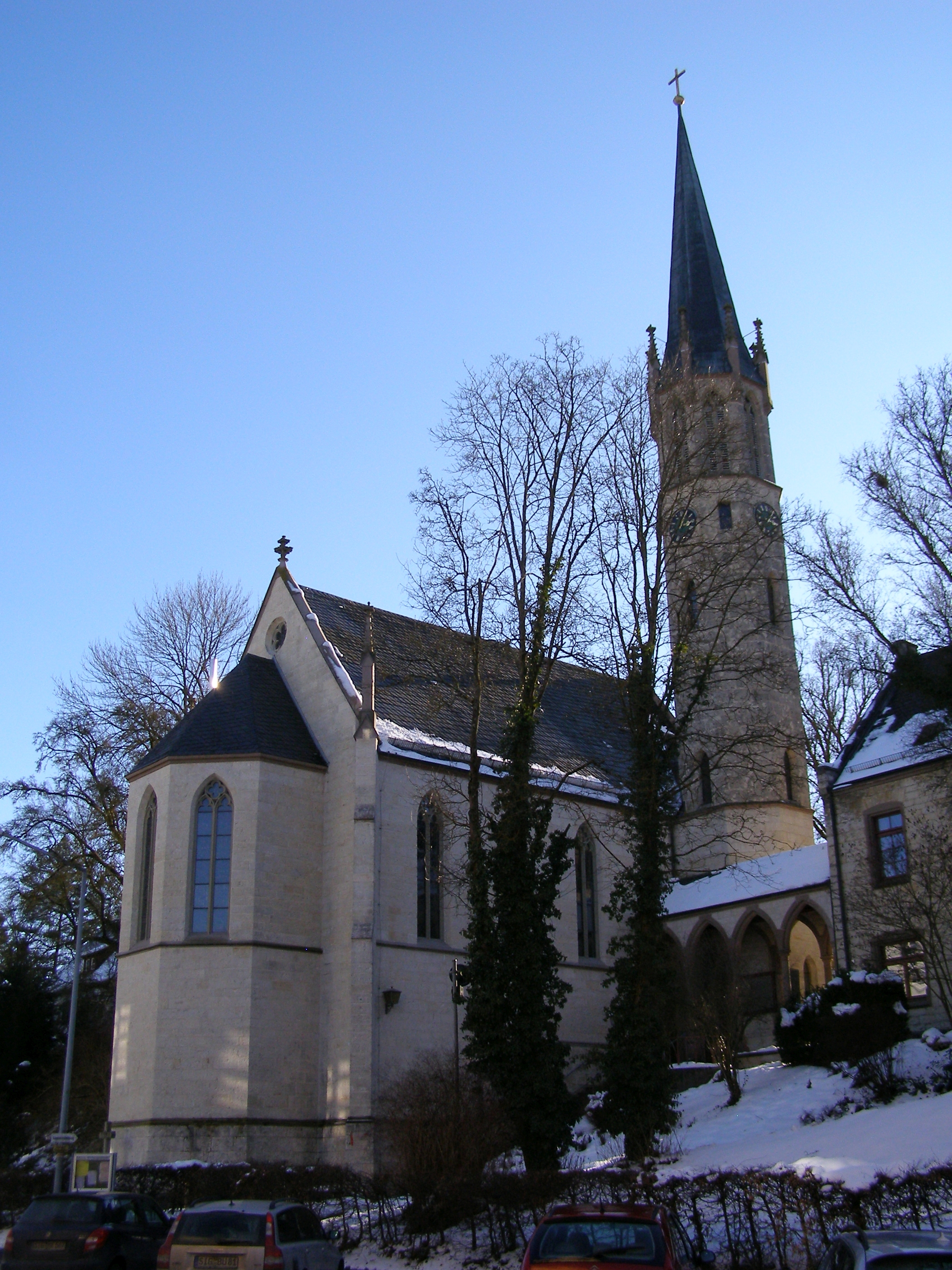 Sigmaringen - Evangeli church